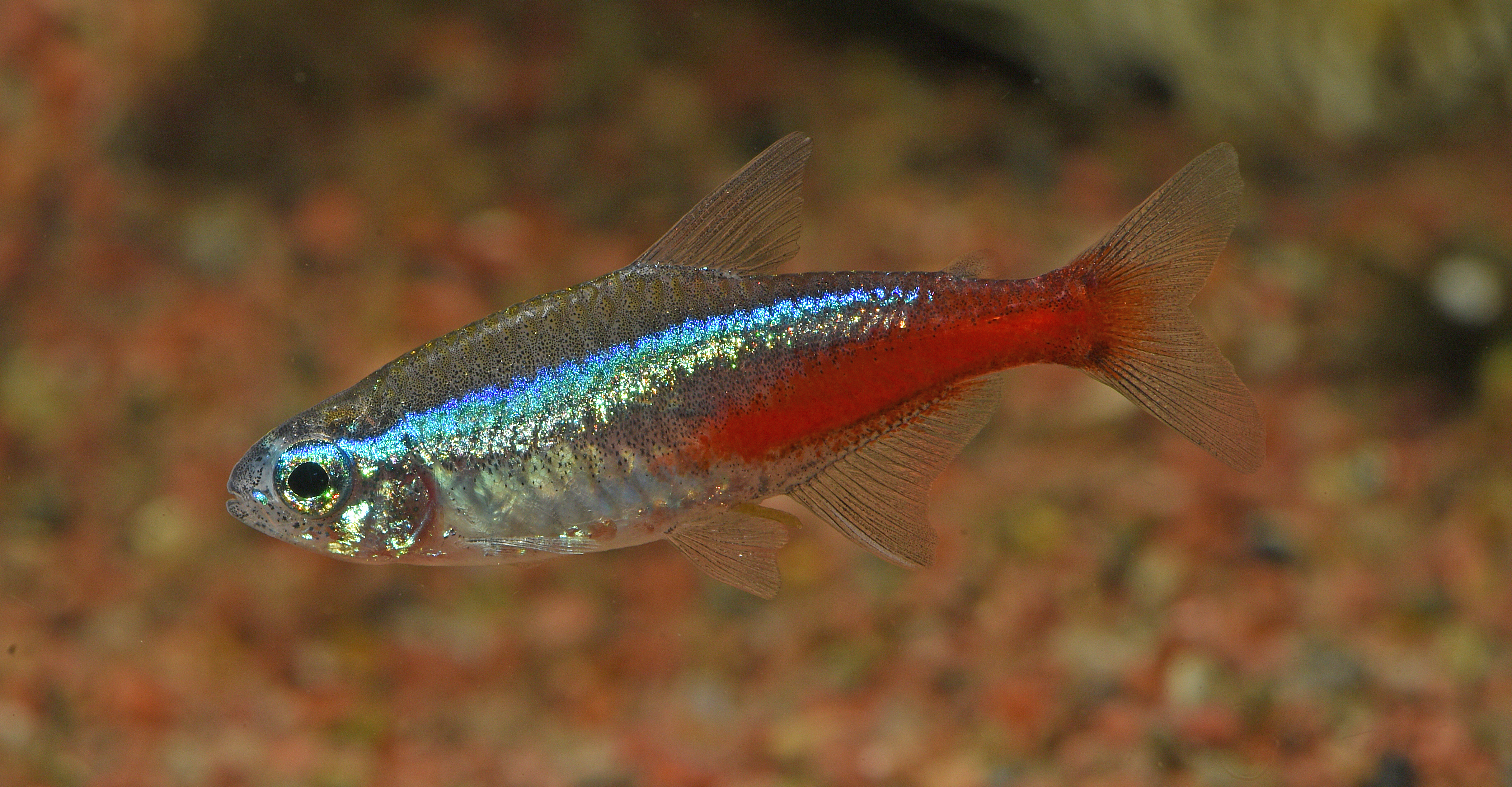 Neon tetra, Paracheirodon innesi, in aquarium